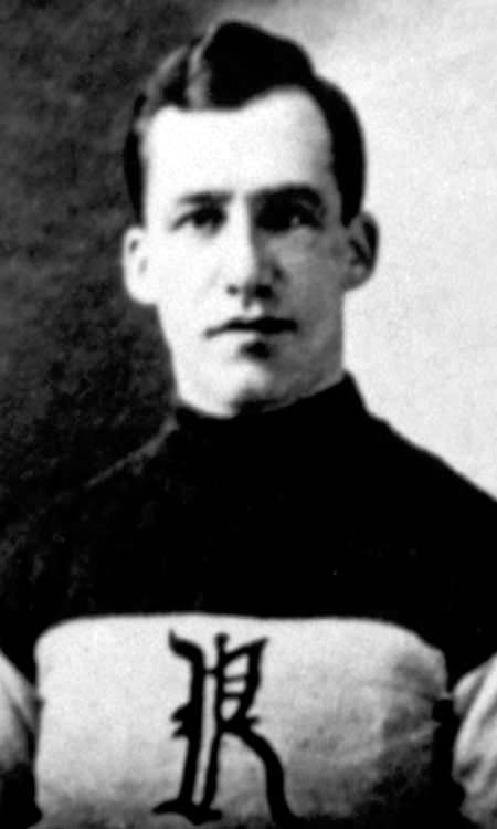 Hockey player Frederick Whitcroft with the Renfrew Creamery Kings in the 1910 season.